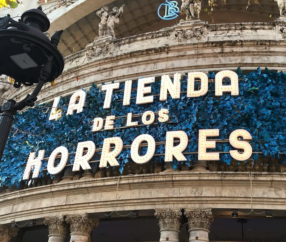 Little Shop of Horrors at Teatre Coliseum in Barcelona